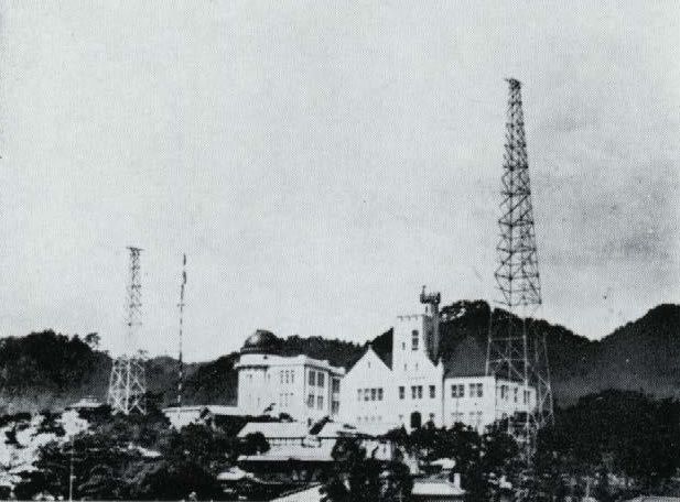 Marine meteorological observatory at the time of the foundation